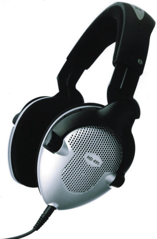 These are my main headphones that have been with me for over a decade now.